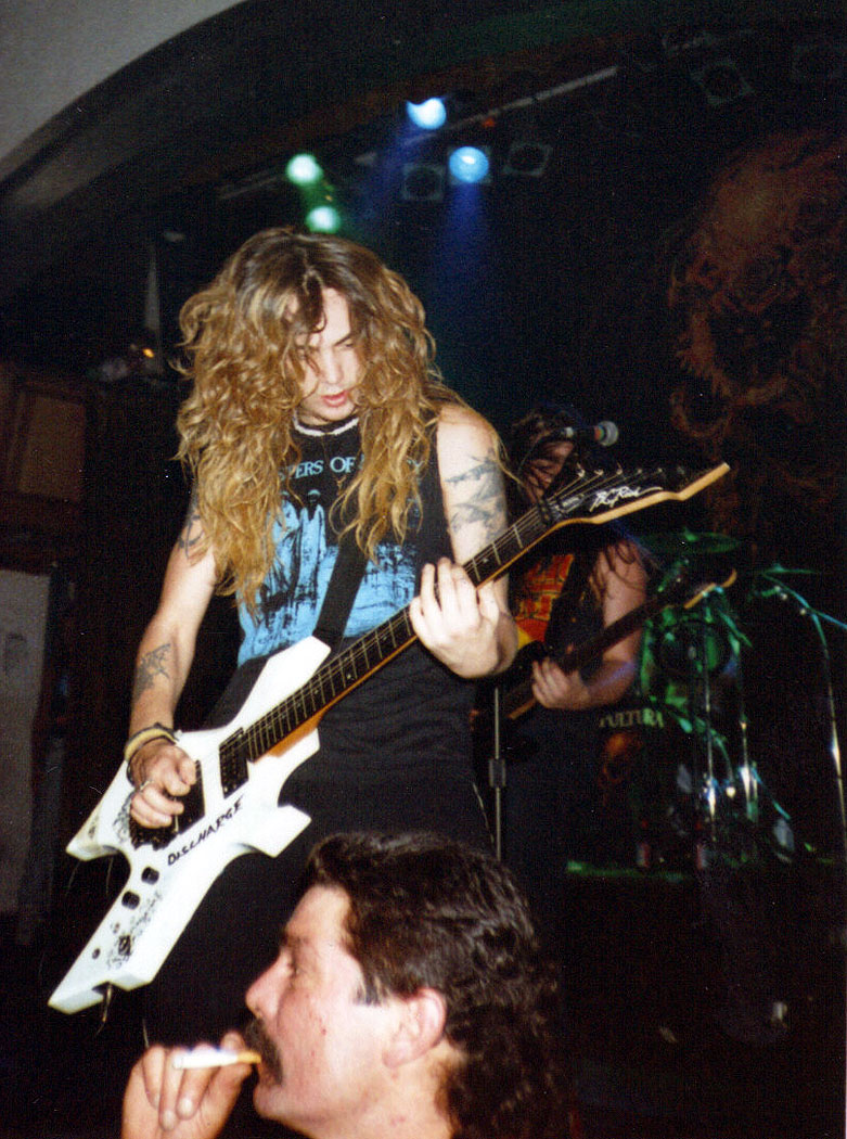 Max Cavalera playing live with Sepultura, concert promoting the album Beneath the Remains (1989).